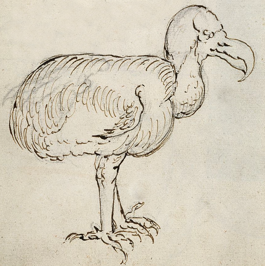 Drawing of a dodo from the journal of the ship "de Gelderland"